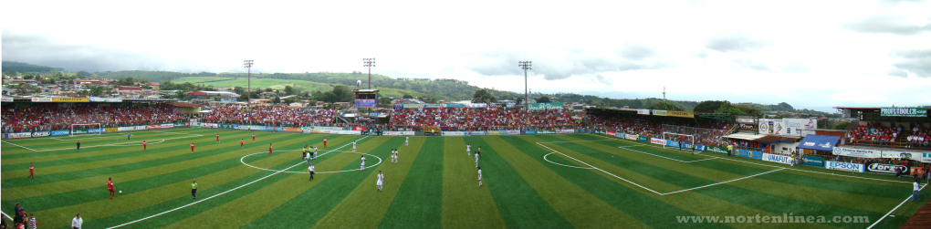 Stadium Carlos Ugalde Alvarez,San Carlos,Alajuela, Cos